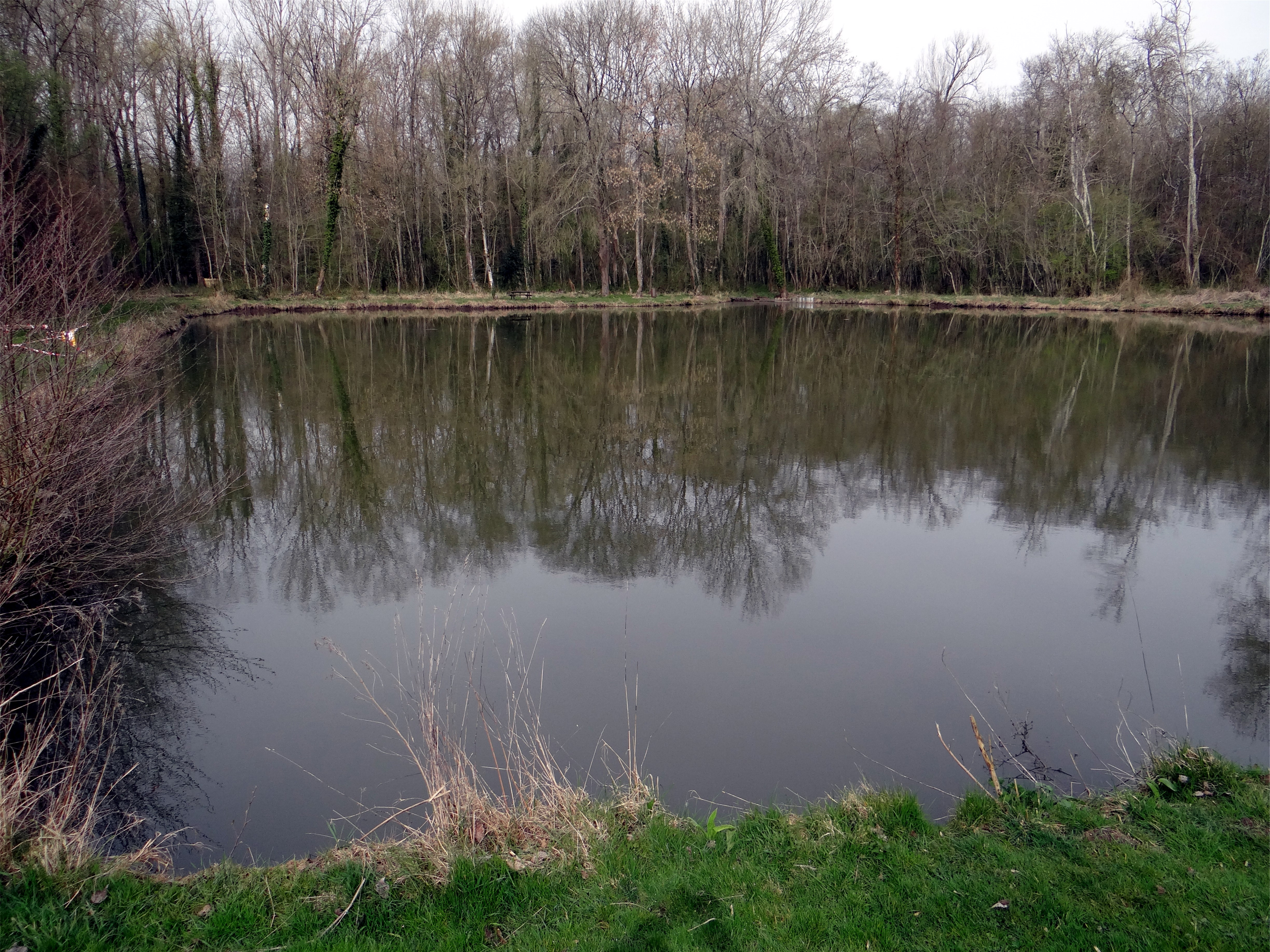 Water Plan from the former bog Garnet Levainville, Eure-et-Loir, France.